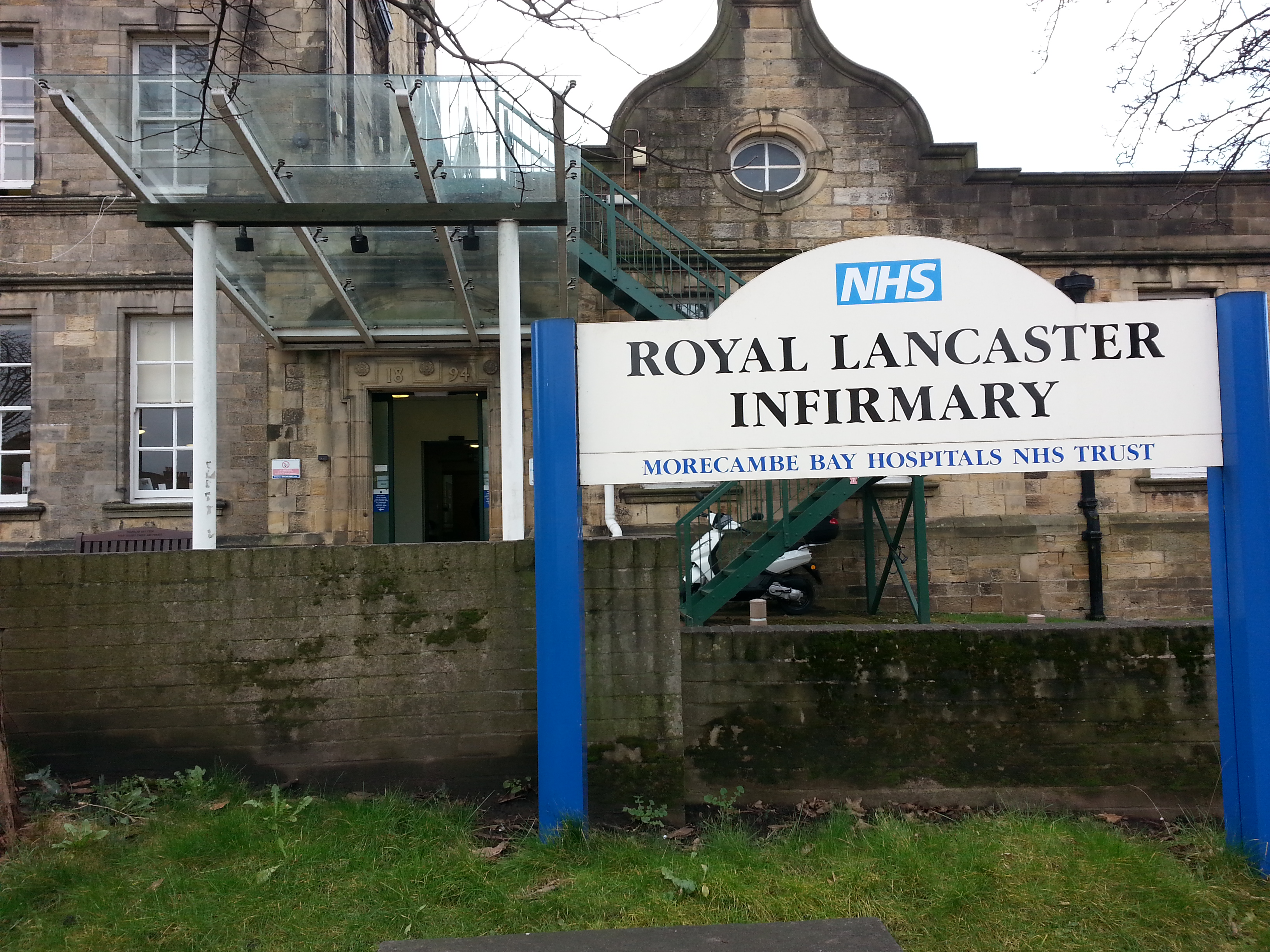 Hospital entrance